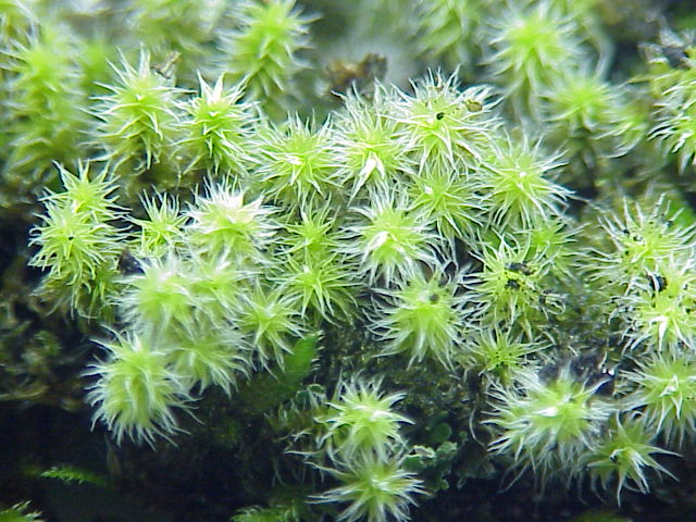 Species: Hedwigia ciliata Family: ' Image No. 2